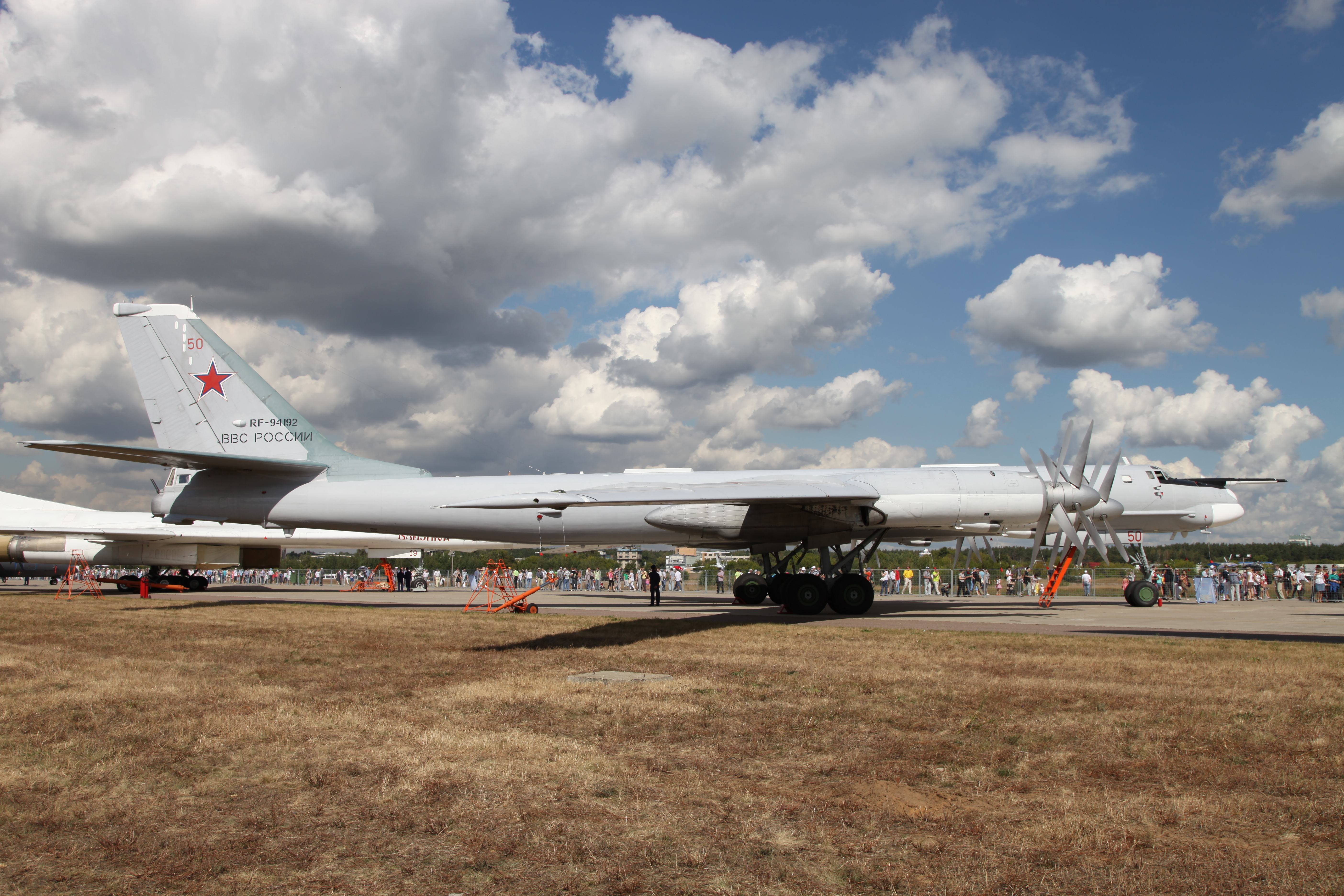 Aircraft at the Celebration of the 100th anniversary of Russian Air Force.